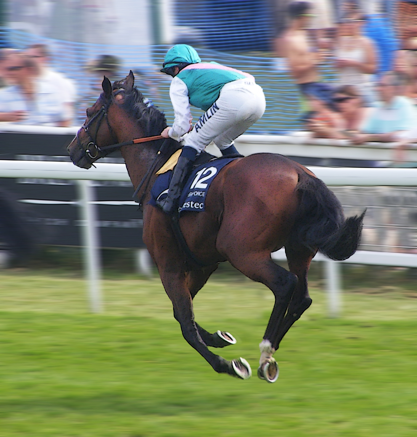 Investec Epsom Derby 2010, winner Workforce cantering to start.